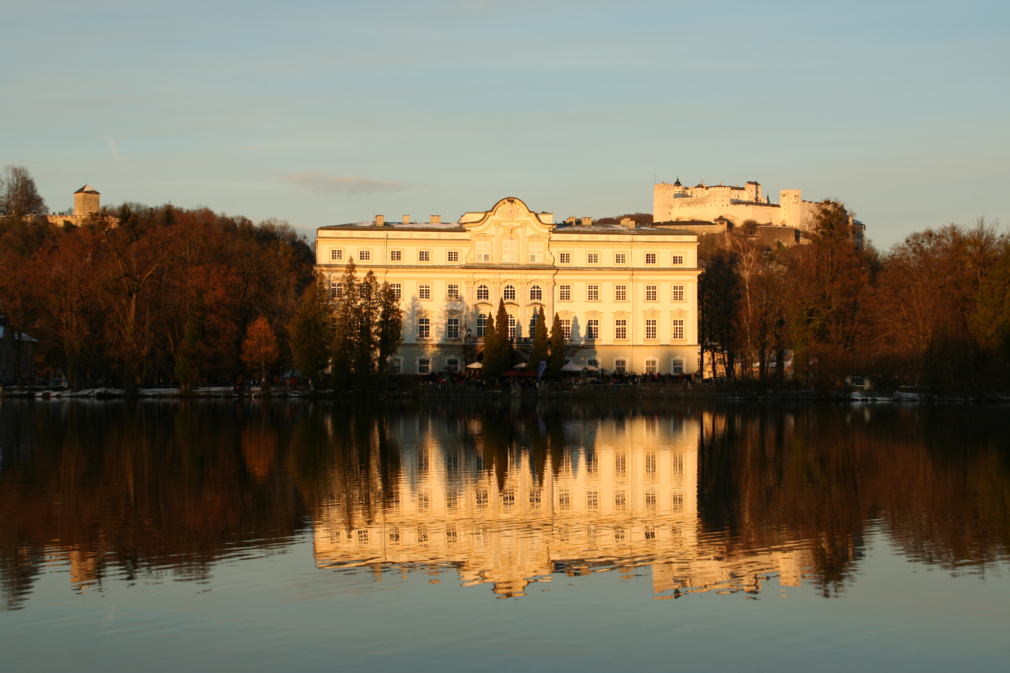 Schloss Leopoldskron (mit Kapelle)